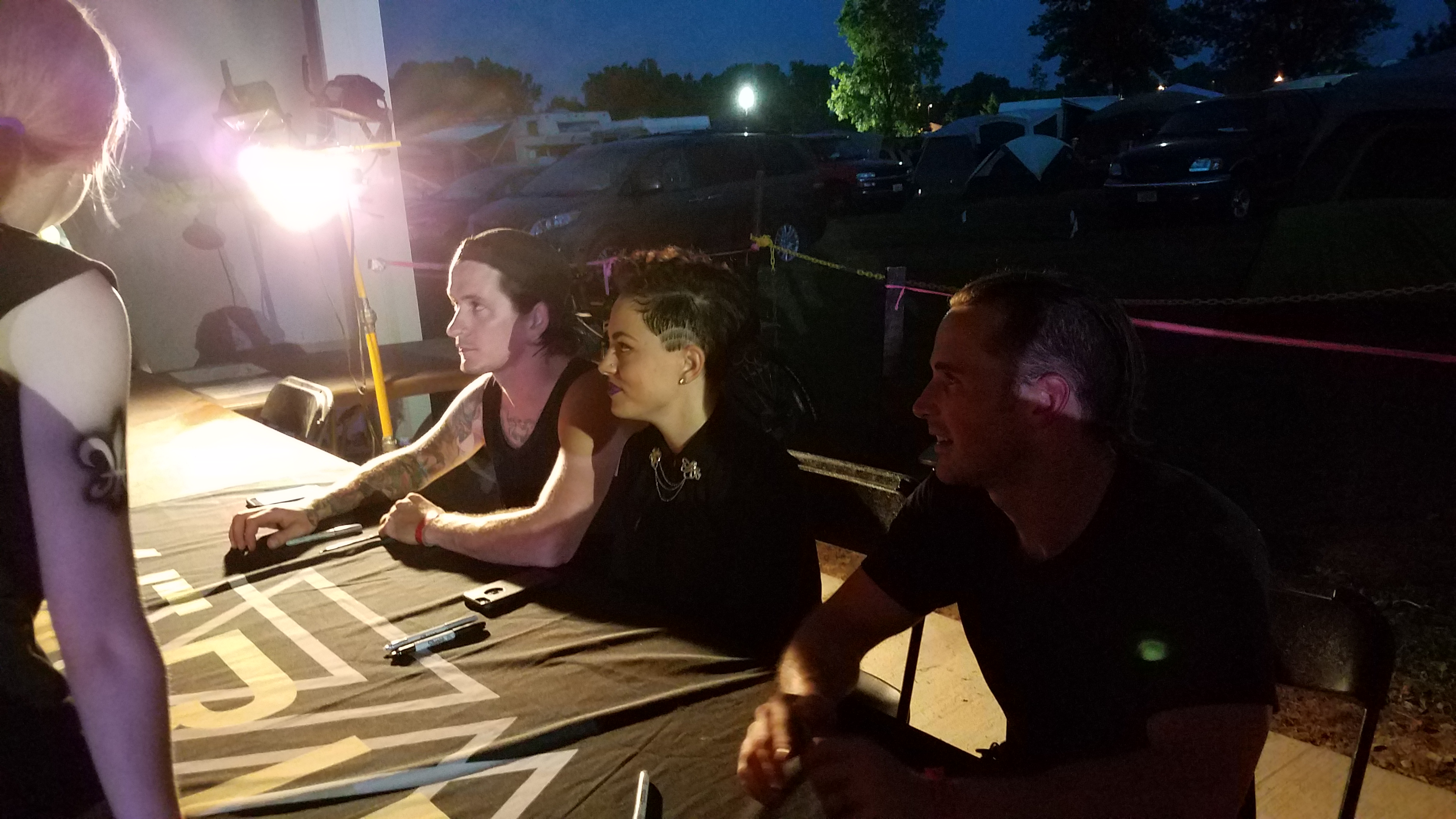 Kyle Levy (Left), Deena Jakoub (Middle), Brandon Brown (Right) talking to fans and signing merchandise. The band loves to engage with fans and come out after every show to meet fans and have genuine discussions.